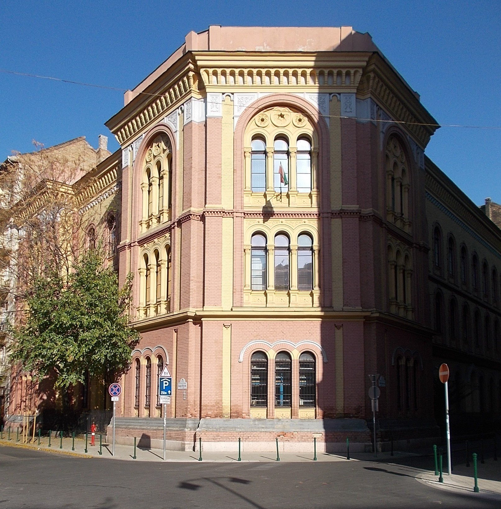 Budapest University of Jewish Studies (Est. 1877, planned by Ferenc Kolbenheyer, built in 1876 and 1877). - Scheiber Sándor street, Palotanegyed neighborhood, District VIII of Budapest.